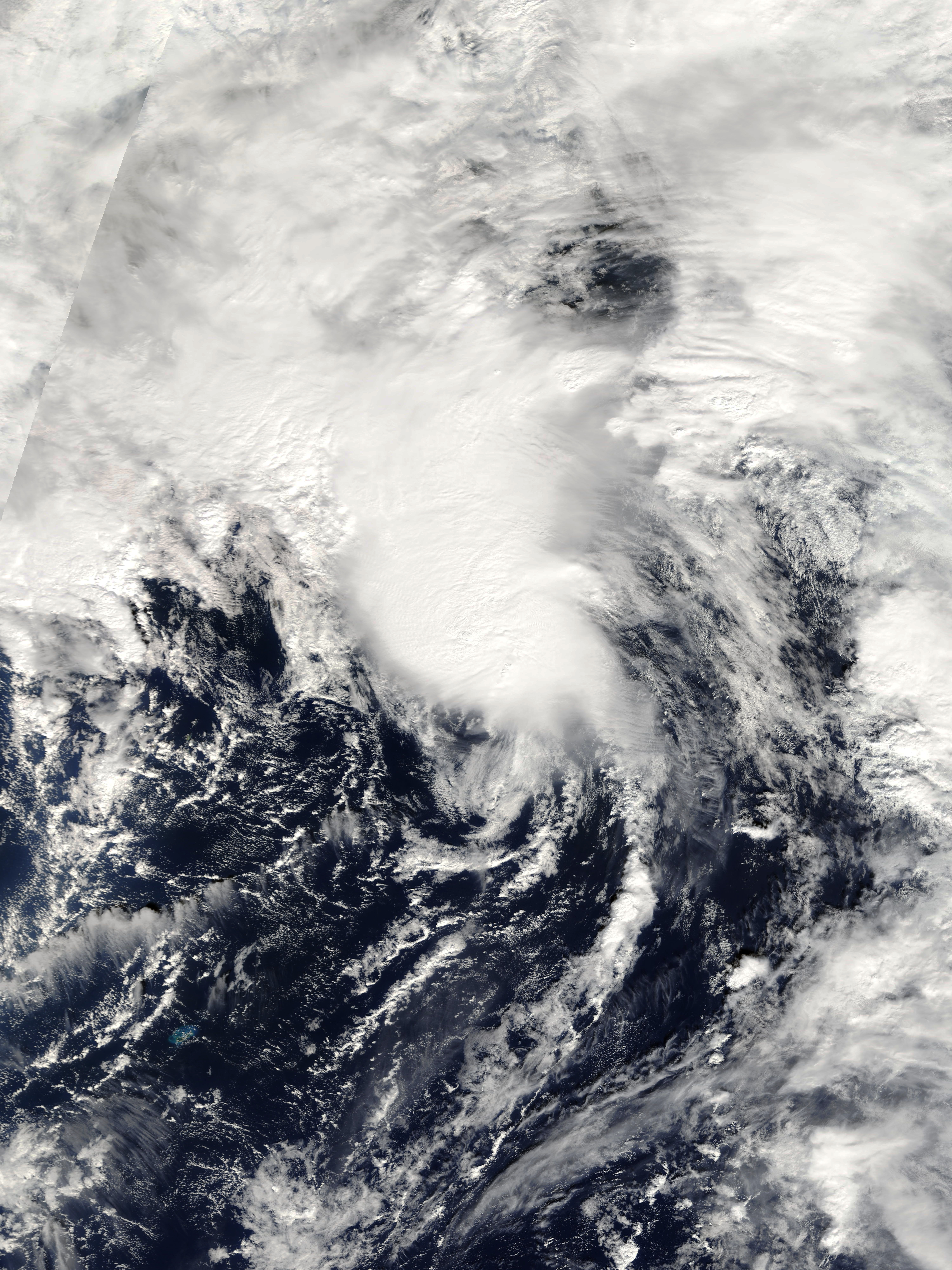 Subtropical Storm Nicole at peak intensity south of Nova Scotia on October 11, 2004